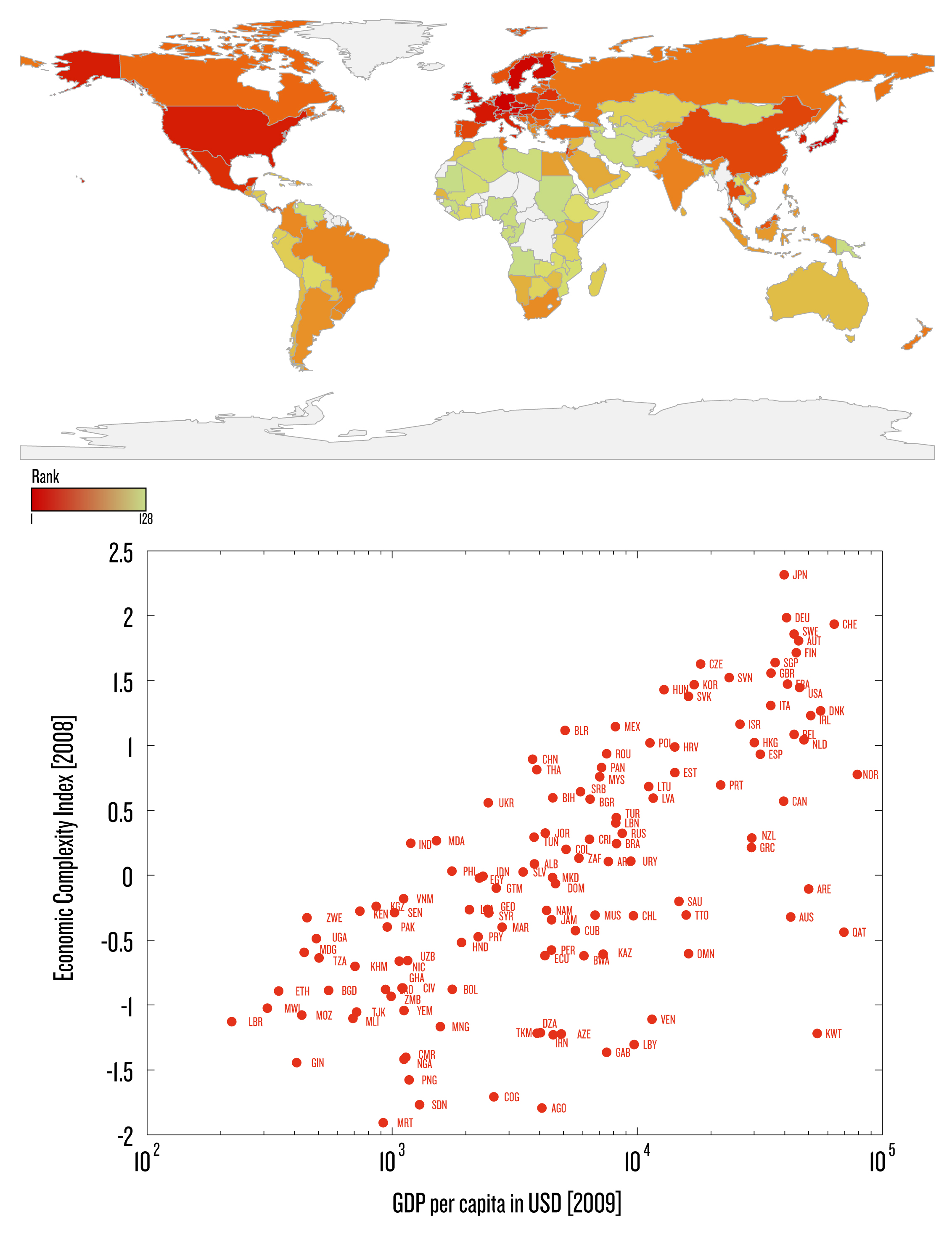 Map showing the rank of every country in the ranking of Economic Complexity and Scatterplot showing the relationship between Economic Complexity and Income.